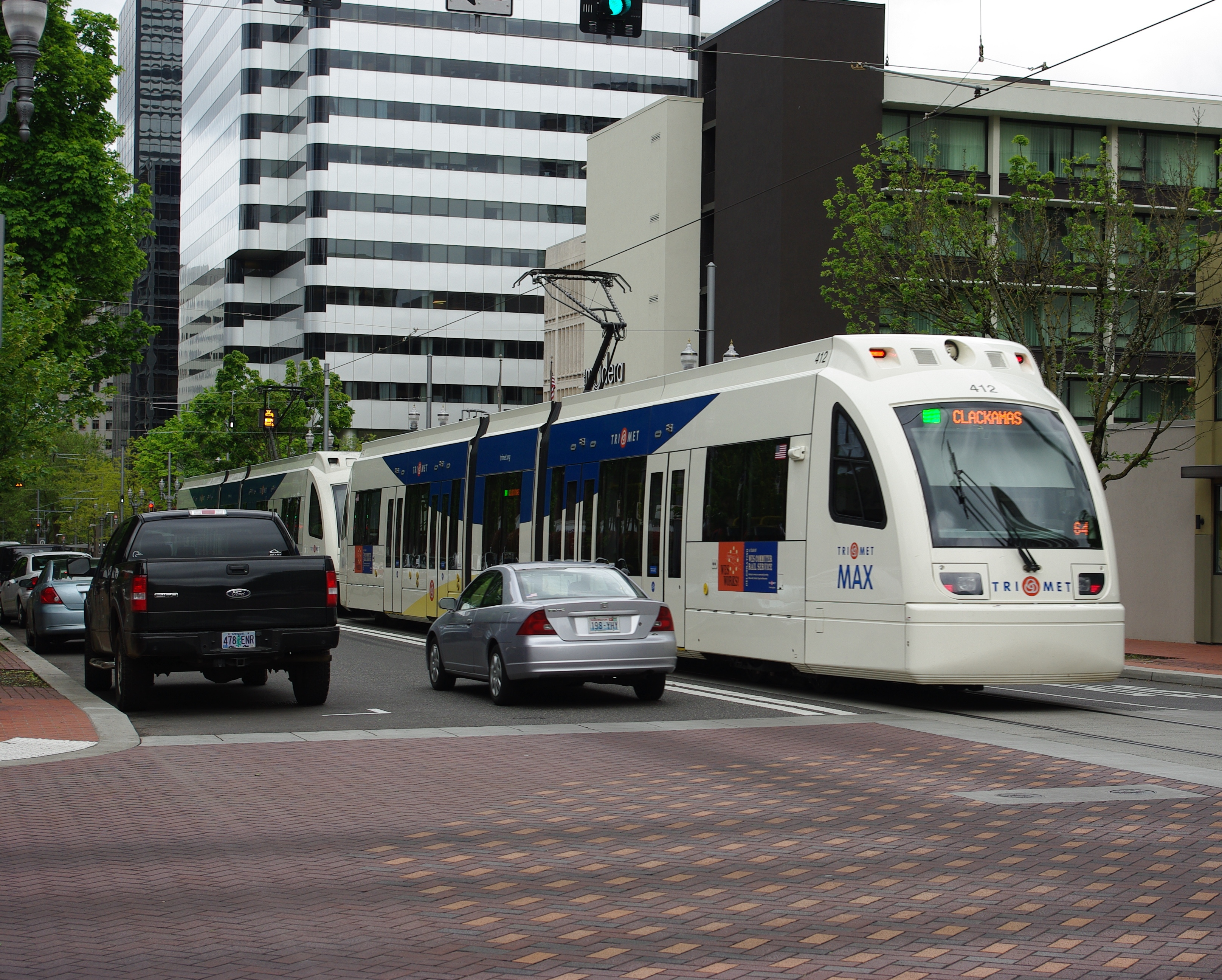 Newer MAX train